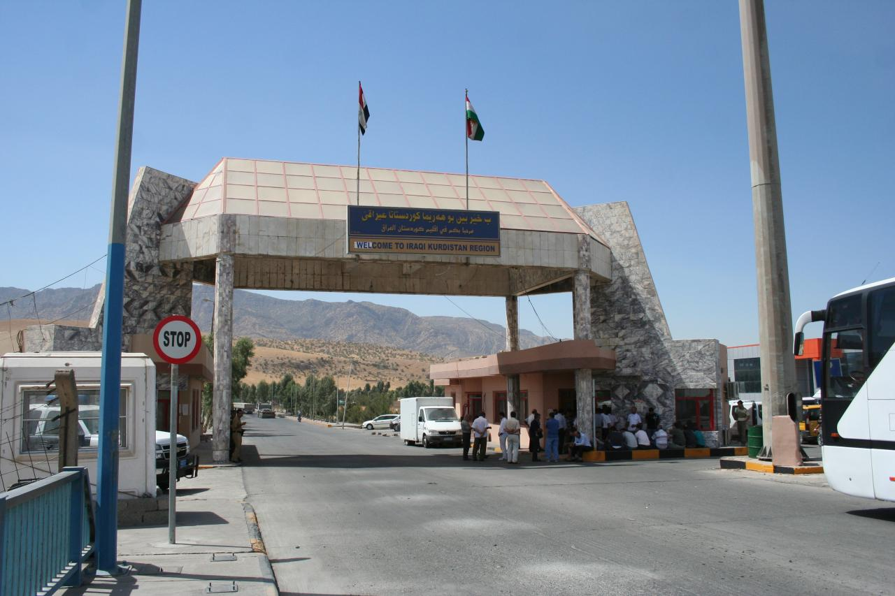 Ibrahim Khalil Border Iraq August 2009